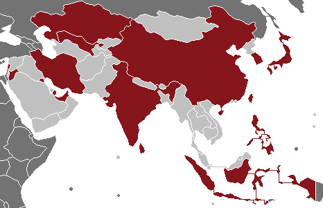 Qualification for the FIBA Asia Championship 2009. Key: Maroon: already qualified; gold: will participate in a qualifying tournament; dark gray = unknown/not a FIBA Asia member.